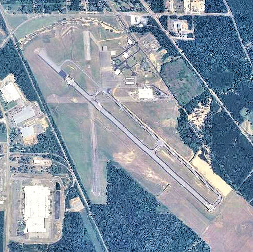 USGS digital orthophoto of Hattiesburg Bobby L. Chain Municipal Airport in Mississippi